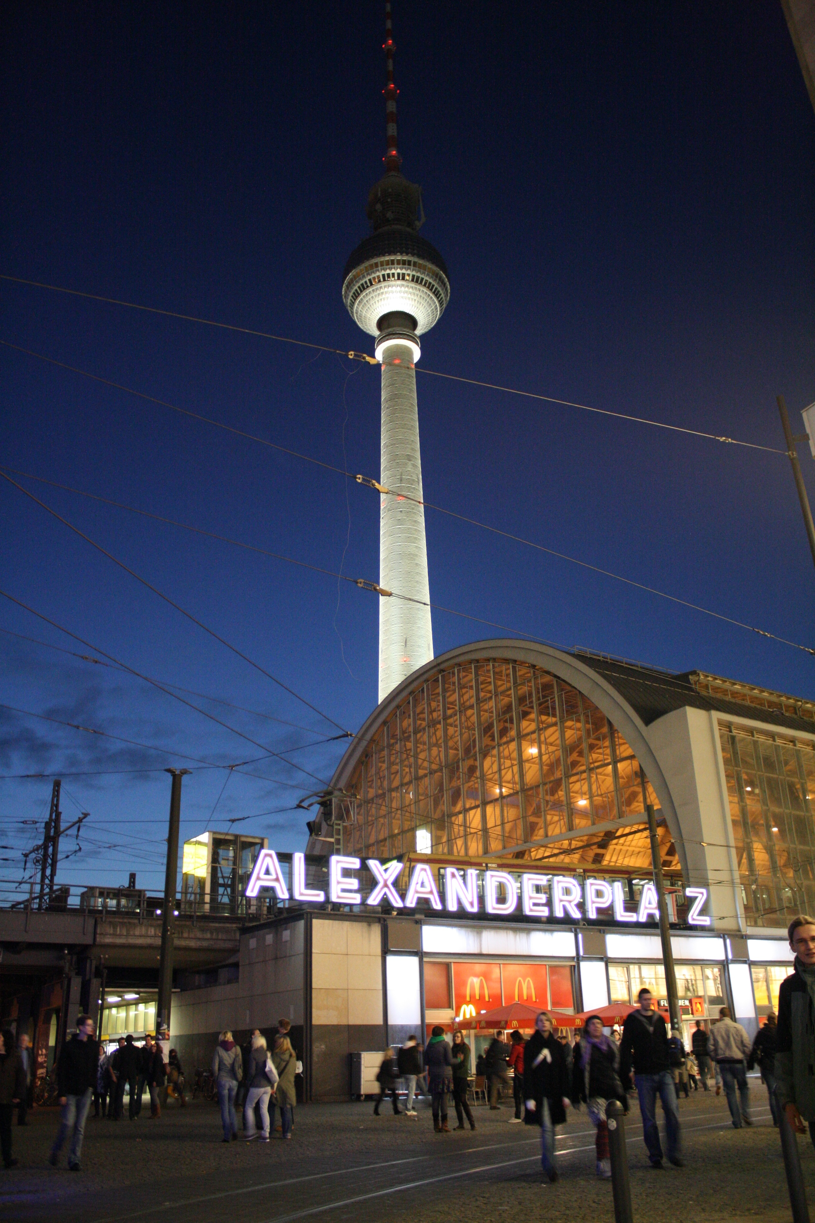 Berlin Alexanderplatz at dawn